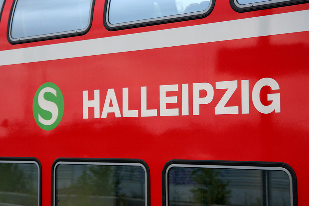 Logo of the Leipzig-Halle S-Bahn system, shrinked to HALLEIPZIG